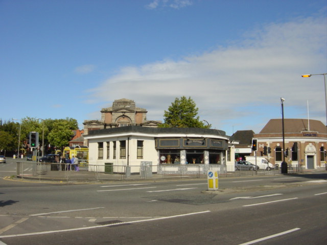 Penny Lane. The famous "shelter in the middle of the roundabout" as sung by the Beatles in their song Penny Lane. Situated at the busy junction with Allerton Road, it is presently a cafe called Sgt Pepper's.